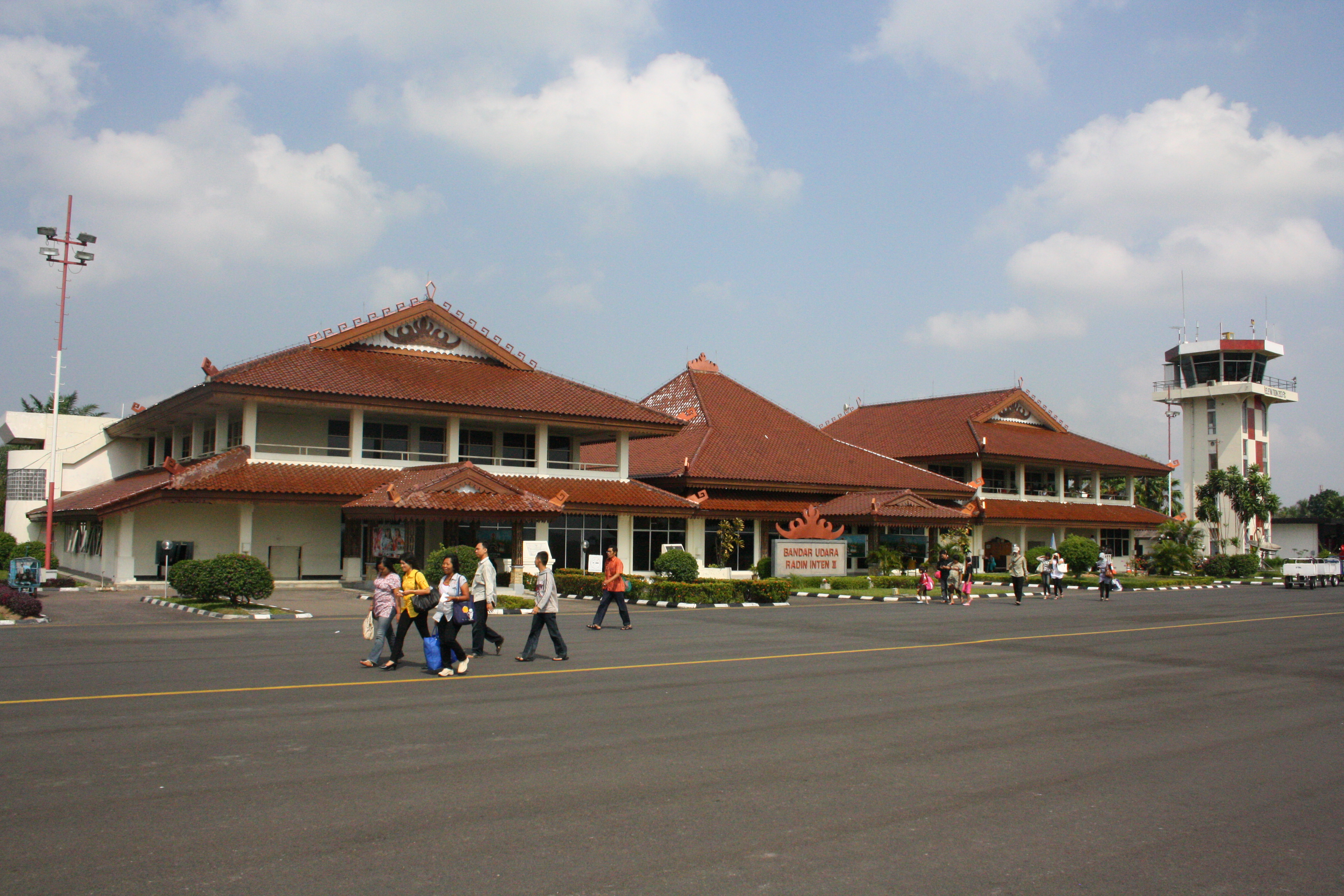 Radin Inten II Airport - Lampung - Sumatra Terminalbuilding